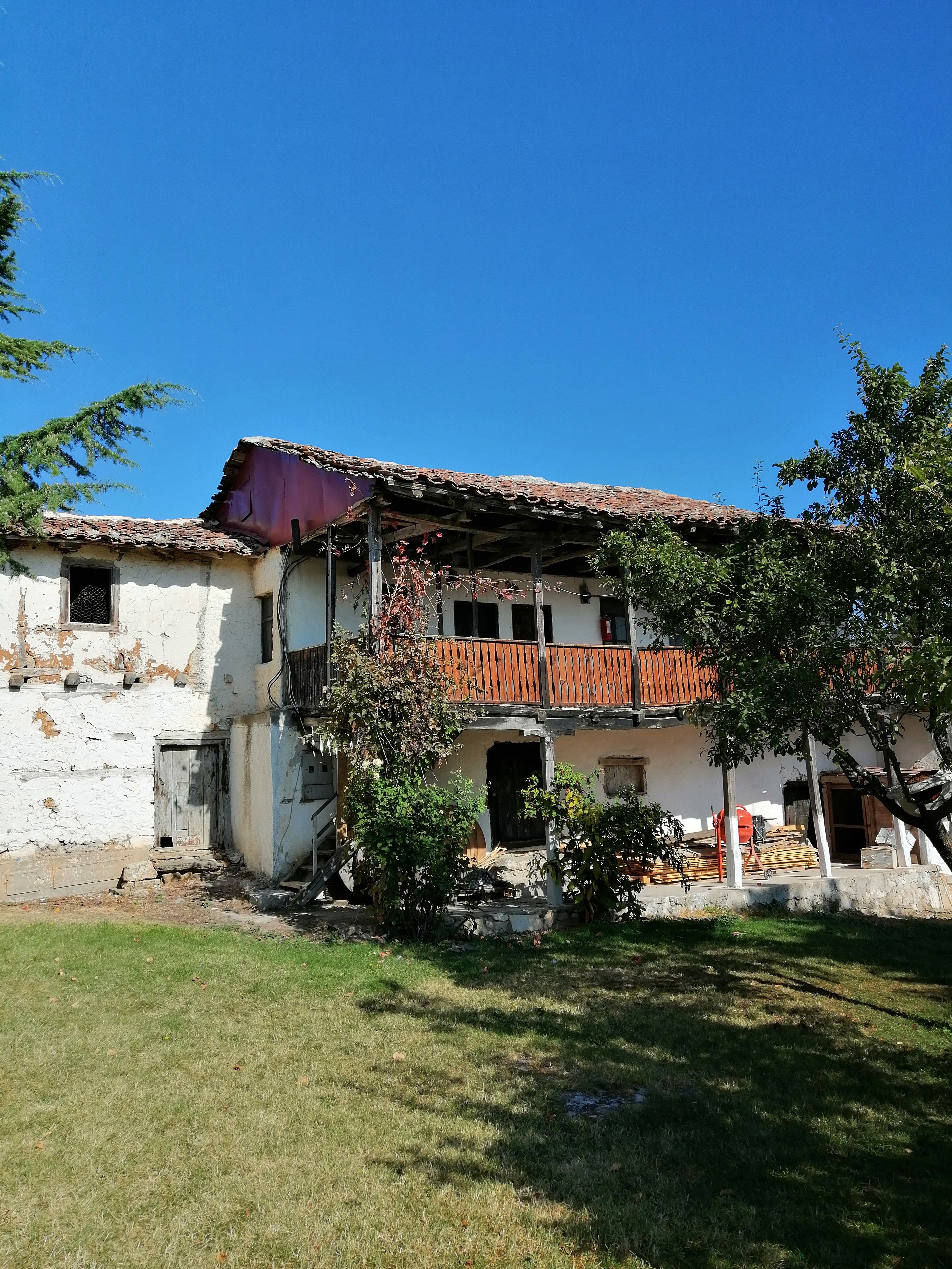 View of the Banjani Monastery St. Nicetas